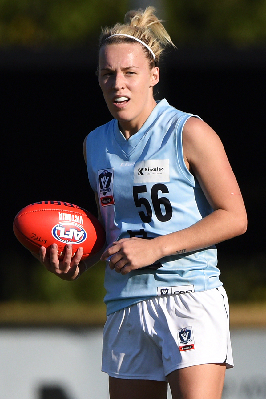 Sarah Wright of Carlton during the 2019 VFLW round 9 match between NT Thunder and Carlton at TIO Stadium on Saturday, 6 July 2019 in Darwin, Northern Territory.